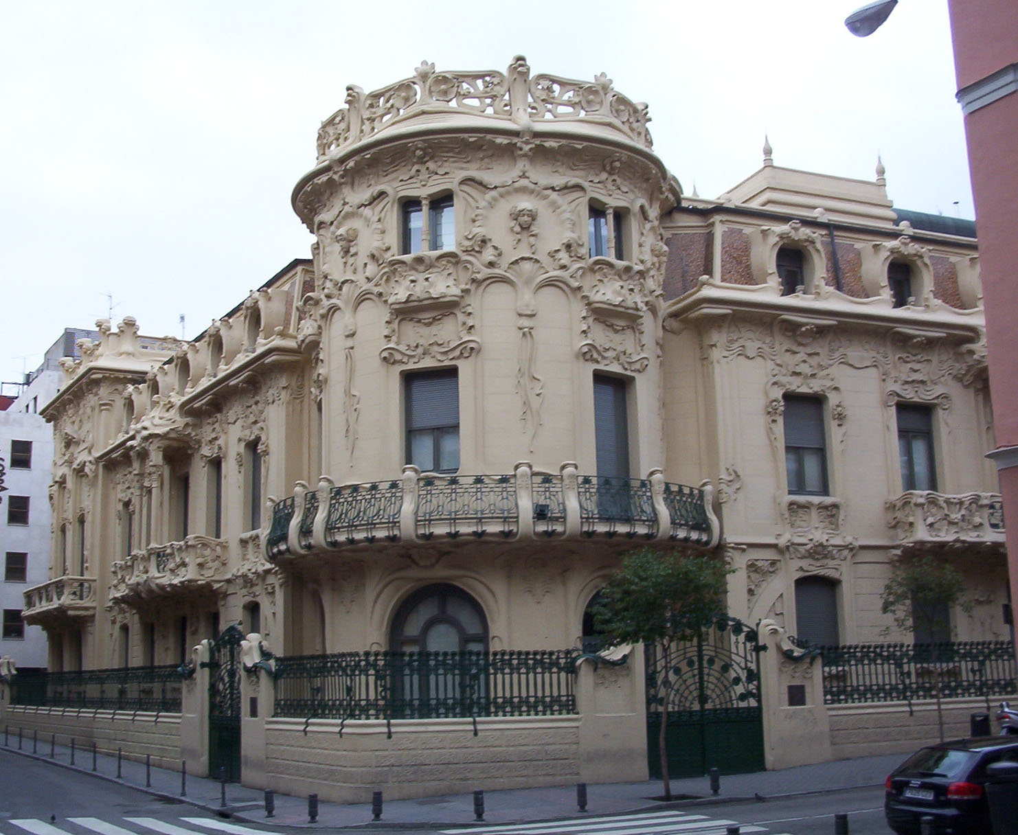 Palacio Longoria (Madrid, Spain, 1902–1904). Architect: Josep Grases Riera (1850–1919).